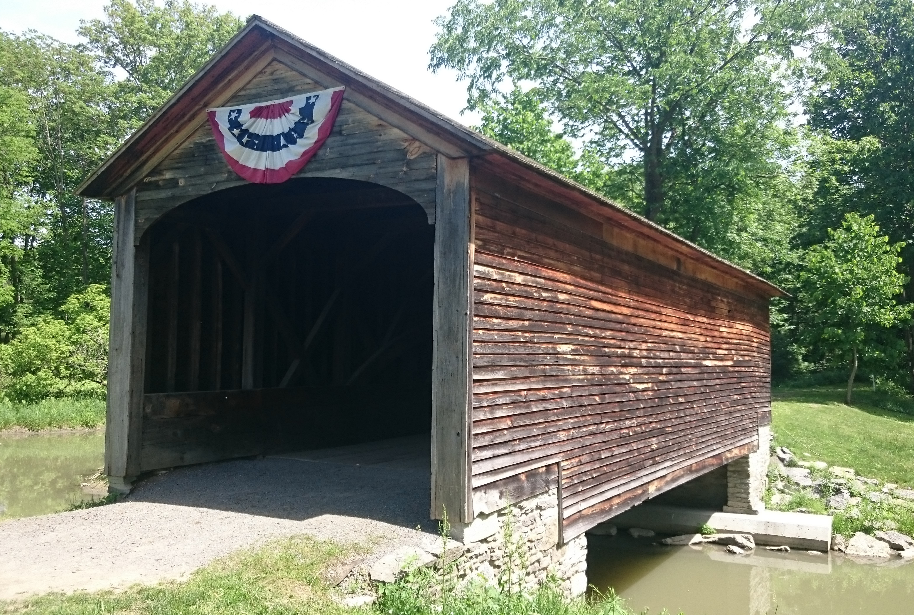 West view of the Hyde Hall Covered Bridge within Glimmerglass State Park, East Springfield, New York